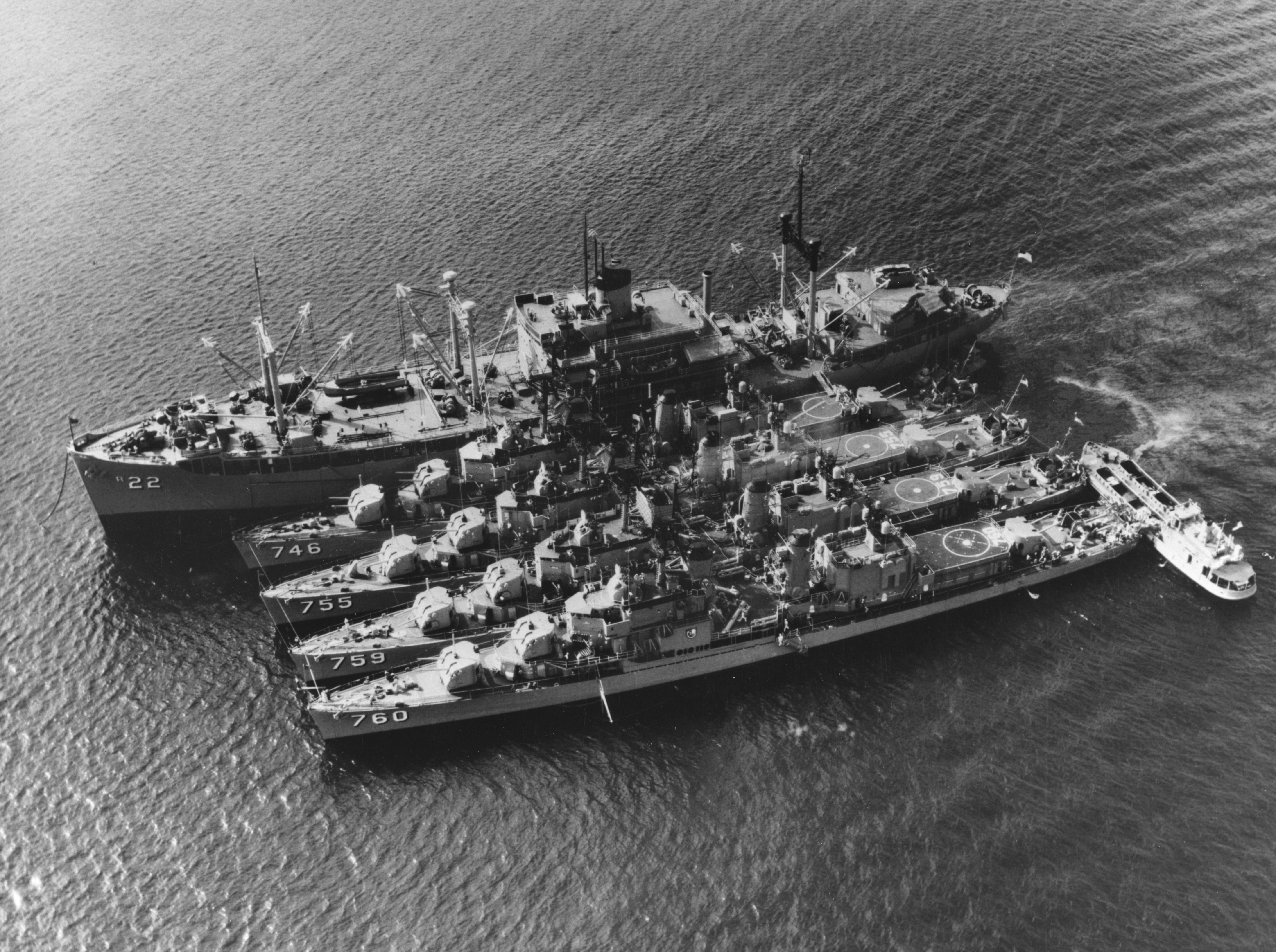 The U.S. Navy repair ship USS Klondike (AR-22) in Subic Bay, Philippines, on 1 November 1963. The destroyers alongside, all "FRAM II" types of Destroyer Squadron 15, are: (from inboard to outboard): USS Taussig (DD-746); USS John A. Bole (DD-755); USS Lofberg (DD-759); and USS John W. Thomason (DD-760).